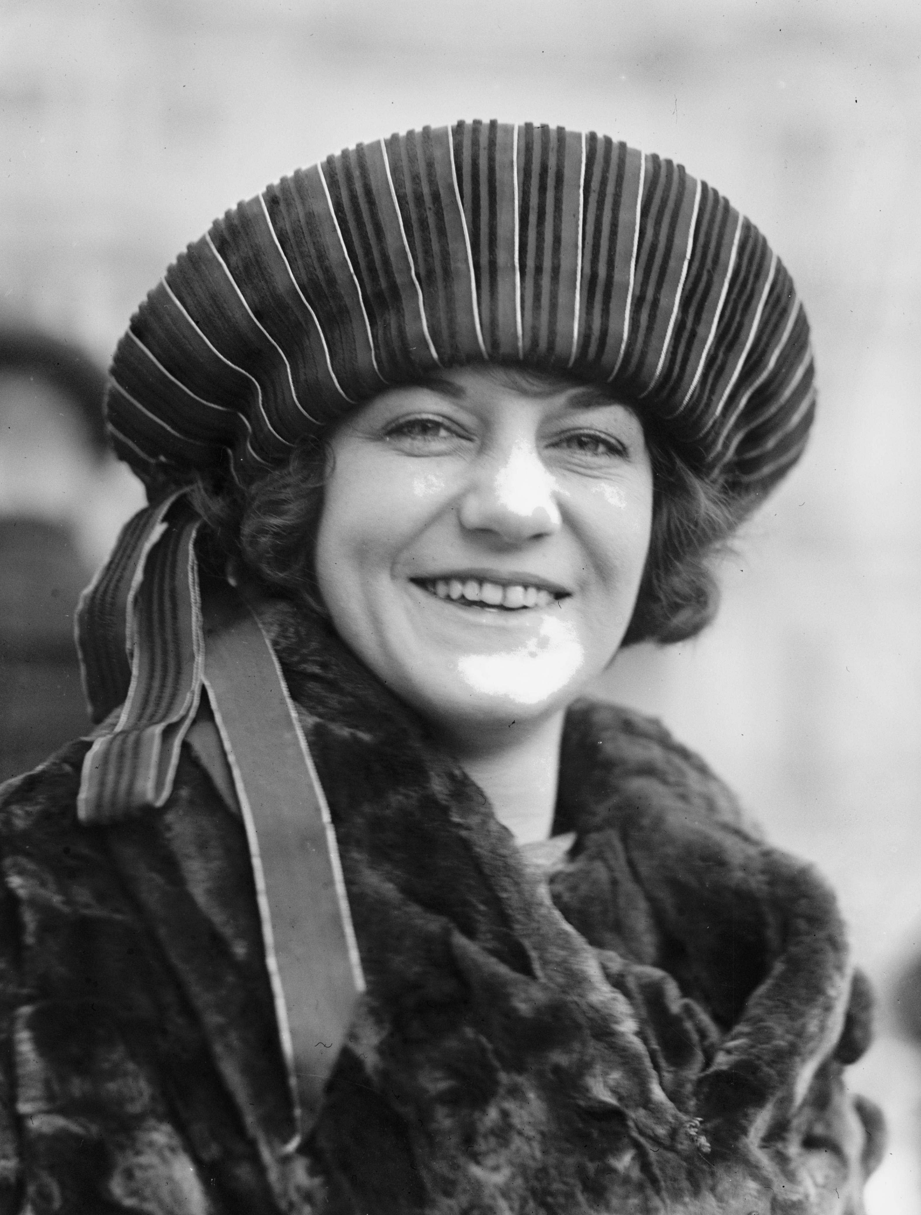 Viola Dana (US-American, 1897-1987), actress, wearing a striped hat, black and white portrait photograph at bust length